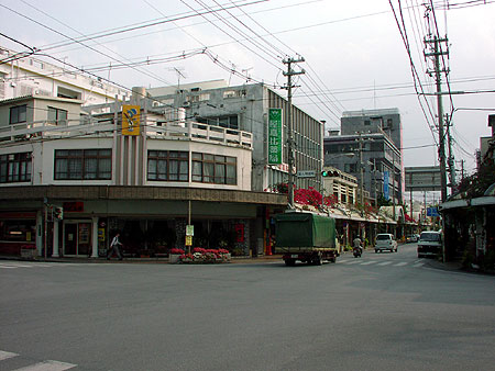 Nago Crossroads